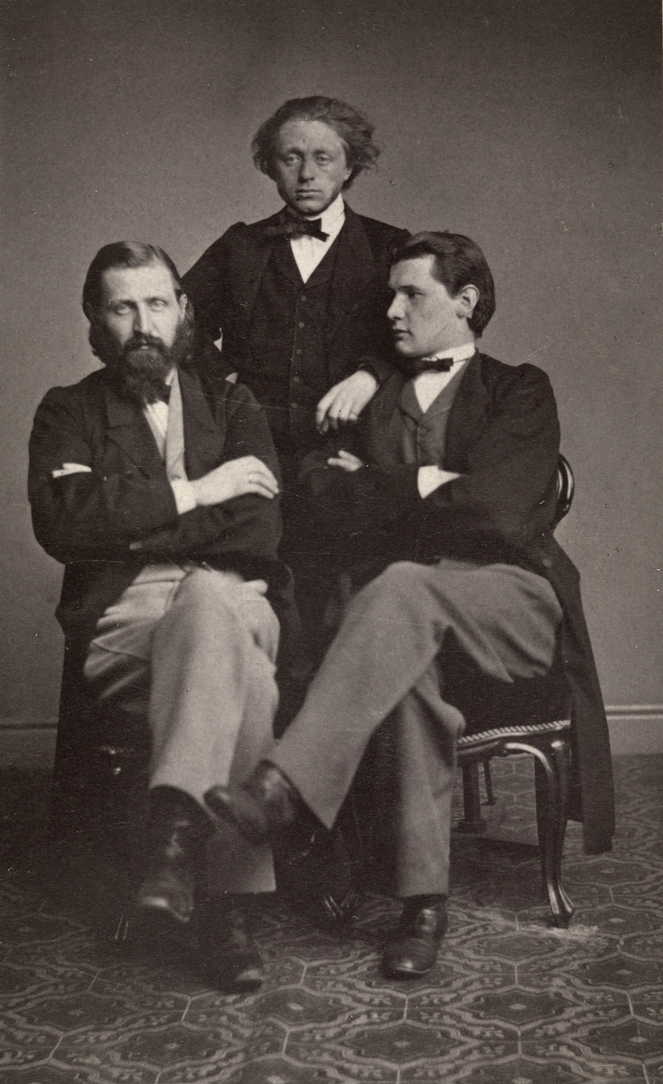 Otto Winther-Hjelm, front to the left, two unknown.